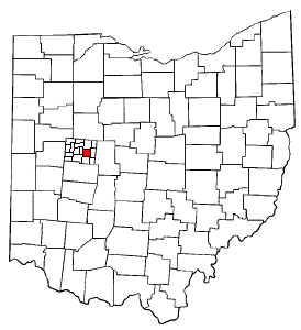 Adapted from Wikipedia's OH county maps. Created by SwissCelt.